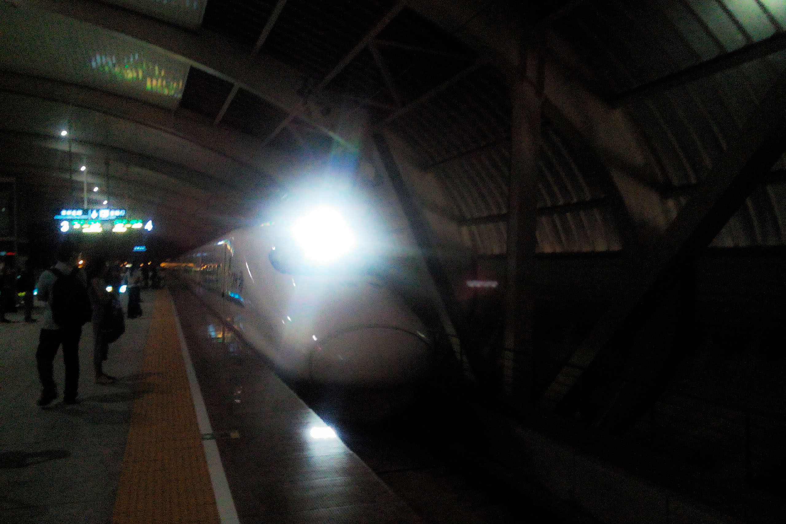 201409 D319 arrives at Changzhoubei Station